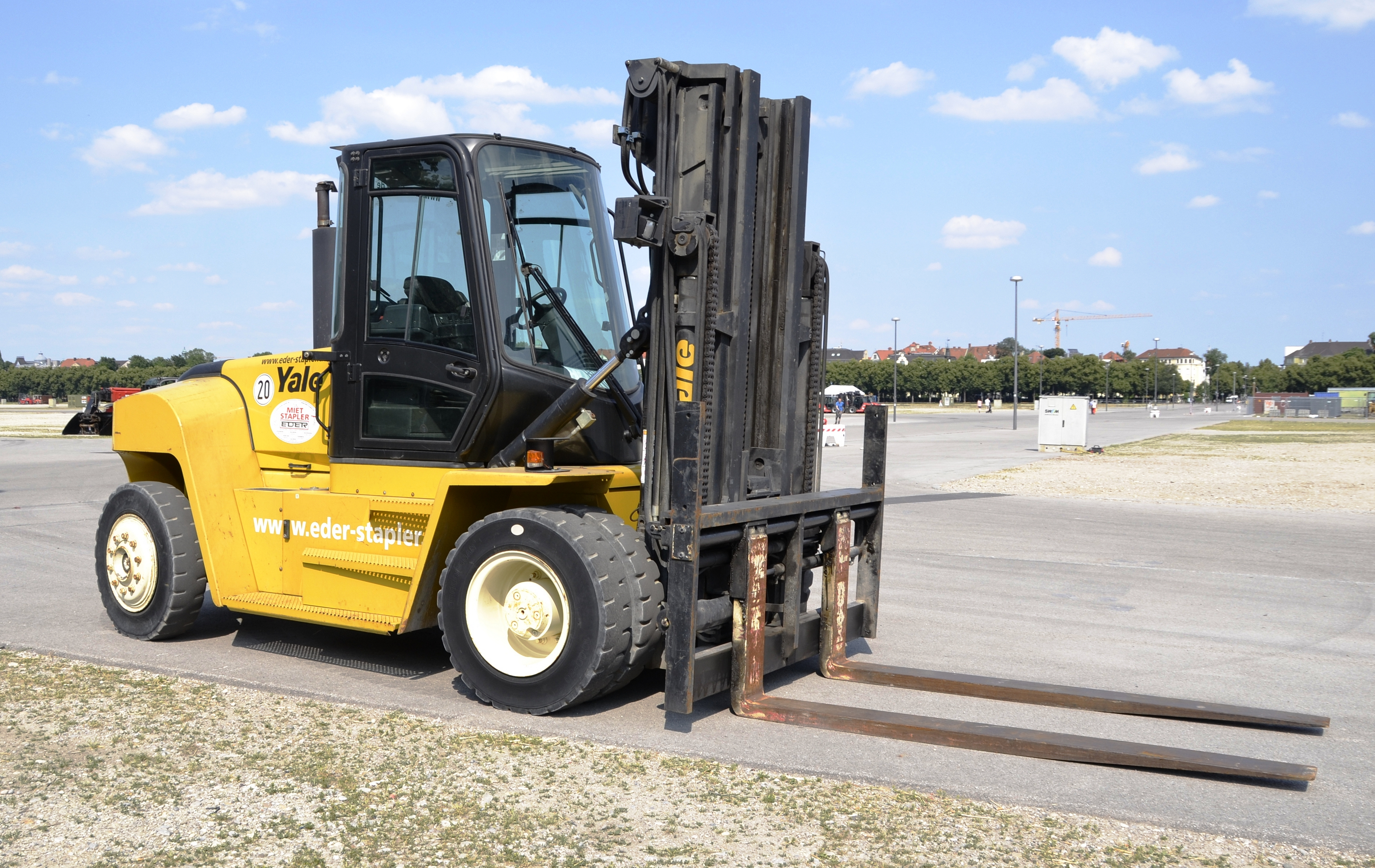 Yale forklift in 2013.